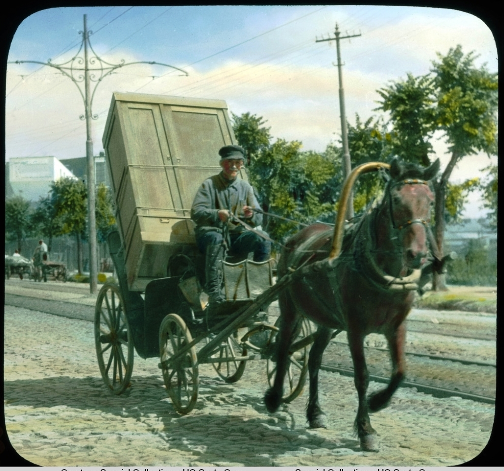 Horse cart on Stromynka Street, Moscow. The Rusakov Club building in background left.